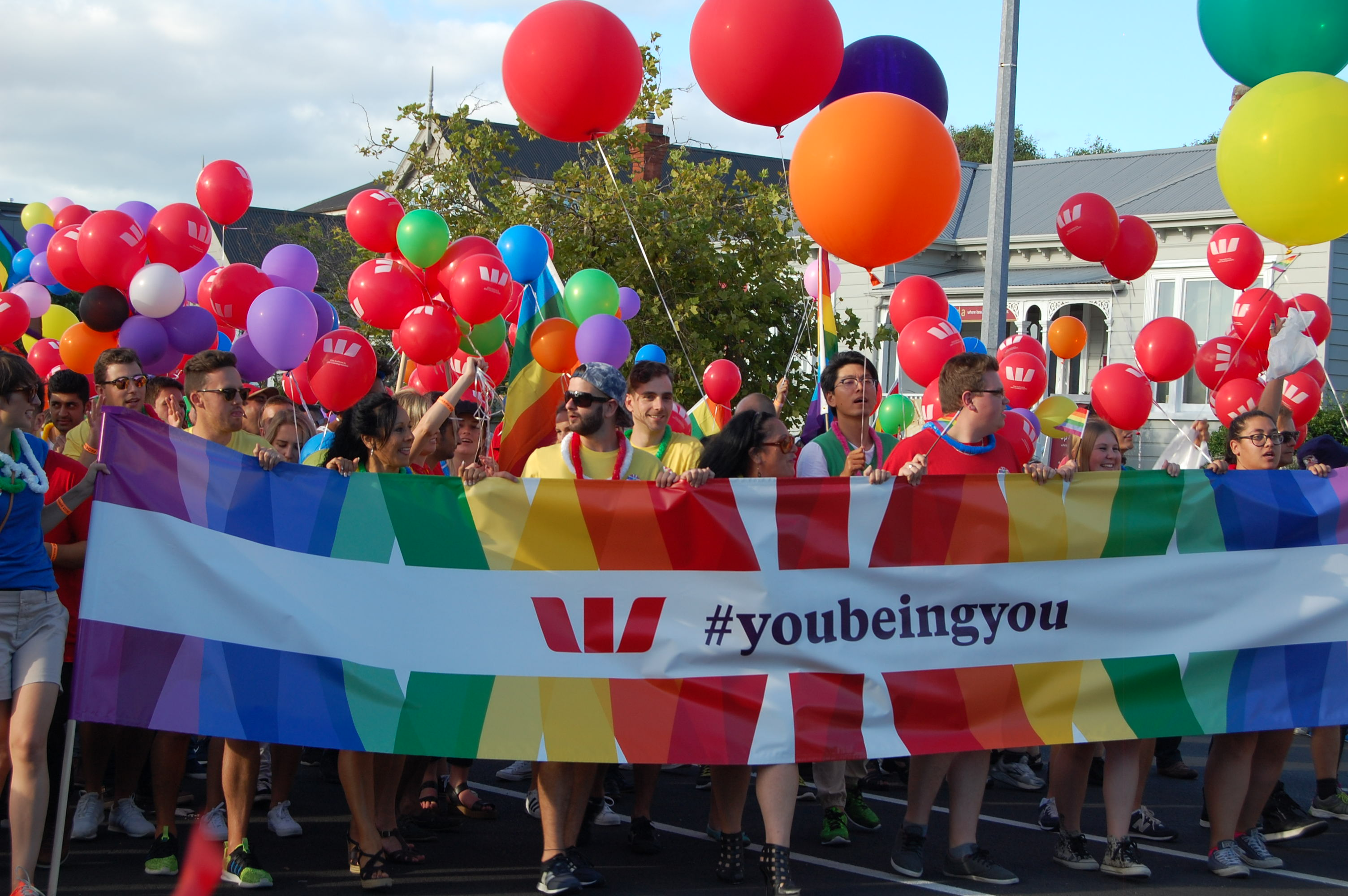 Westpac on Auckland pride parade 2016 Personality rights warningAlthough this work is freely licensed or in the public domain, the person(s) shown may have rights that legally restrict certain re-uses unless those depicted consent to such uses. In these cases, a model release or other evidence of consent could protect you from infringement claims.